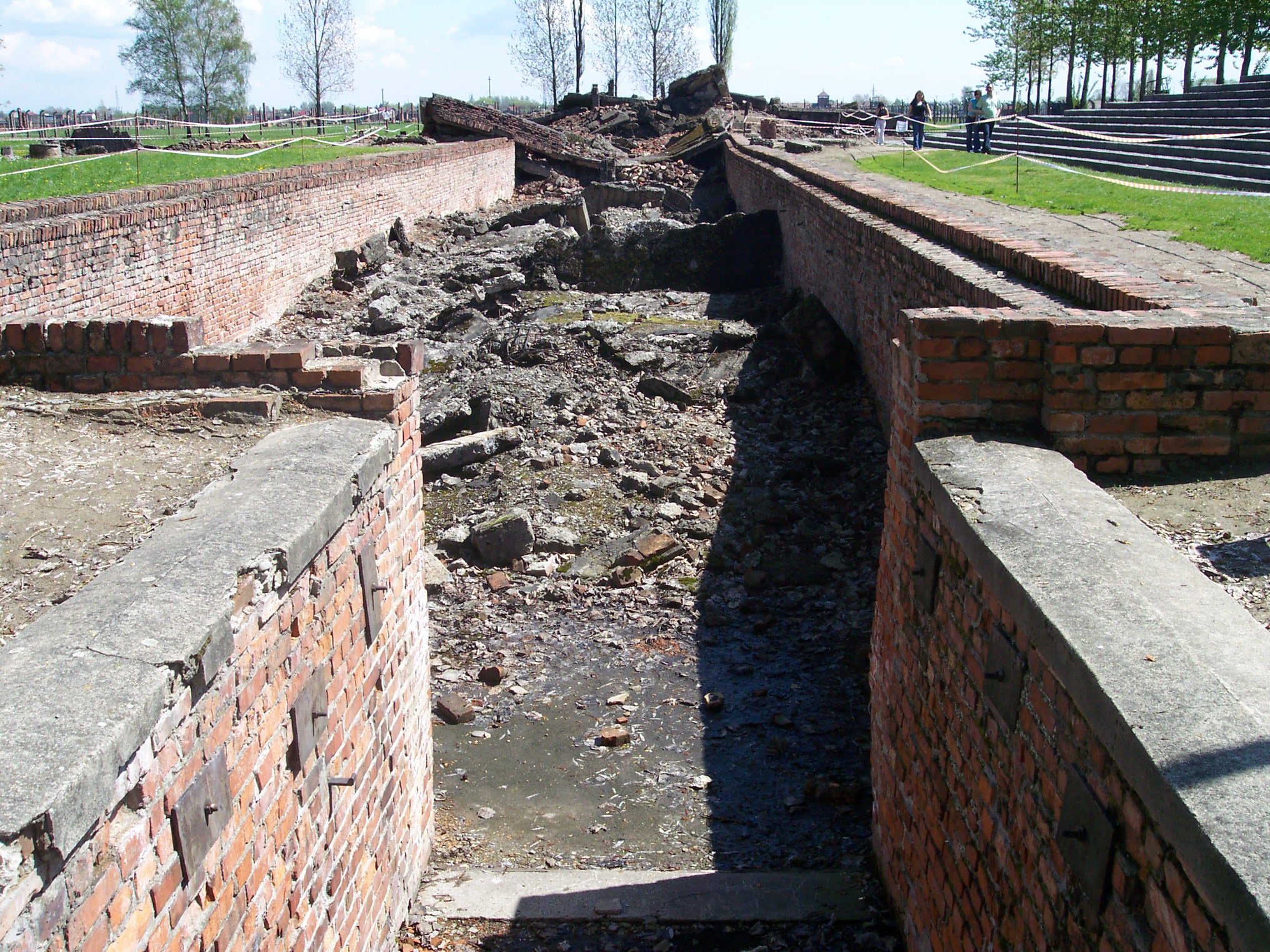 Entrance to Crematorium III in the concentration camp Auschwitz II (Birkenau)